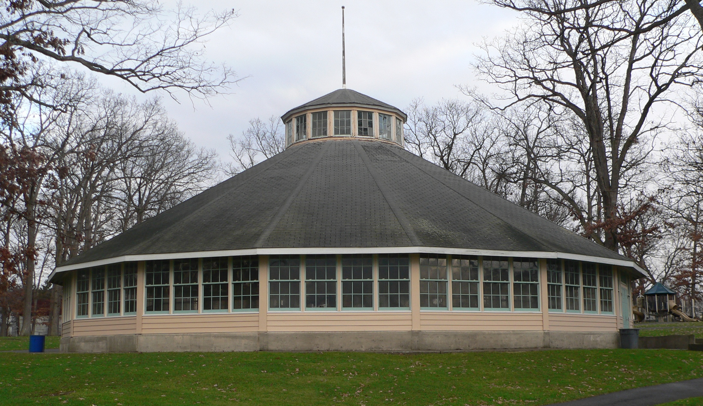 Carousel in George F. Johnson Recreation Park, located on Beethoven Street in Binghamton, New York.